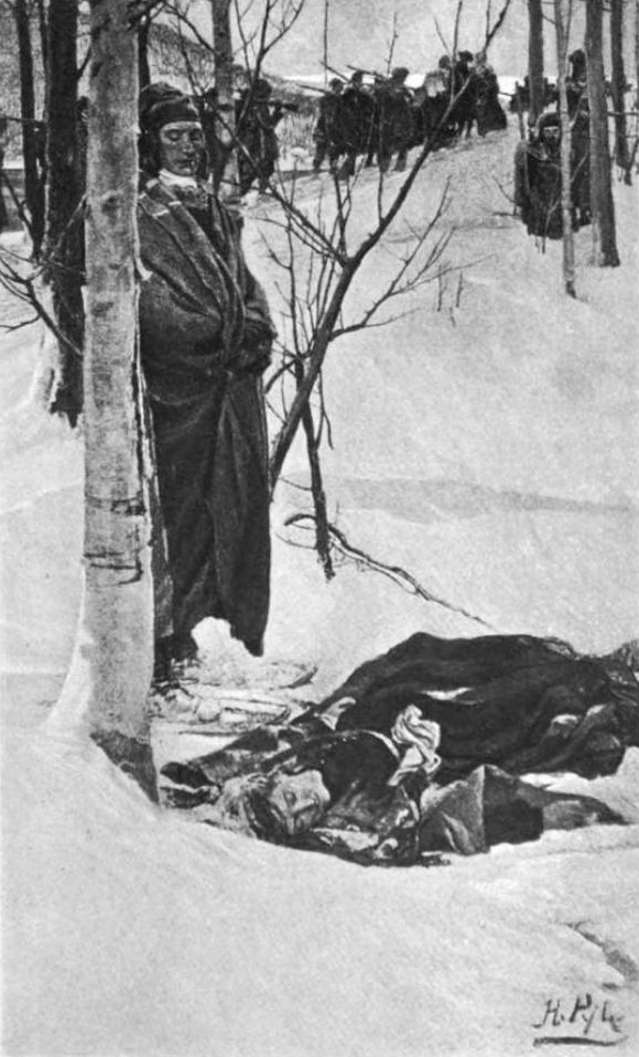 Illustration depicting the return journey after the 1704 Raid on Deerfield.